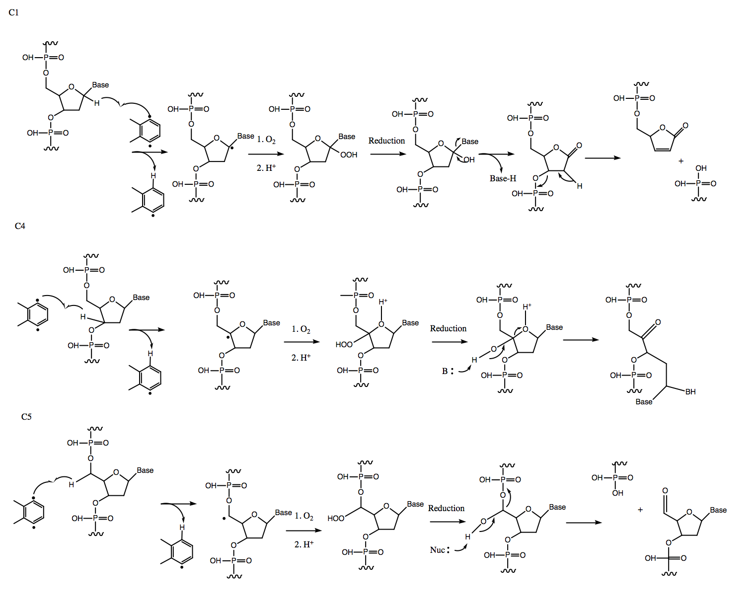 abstraction of hydrogen at different positions